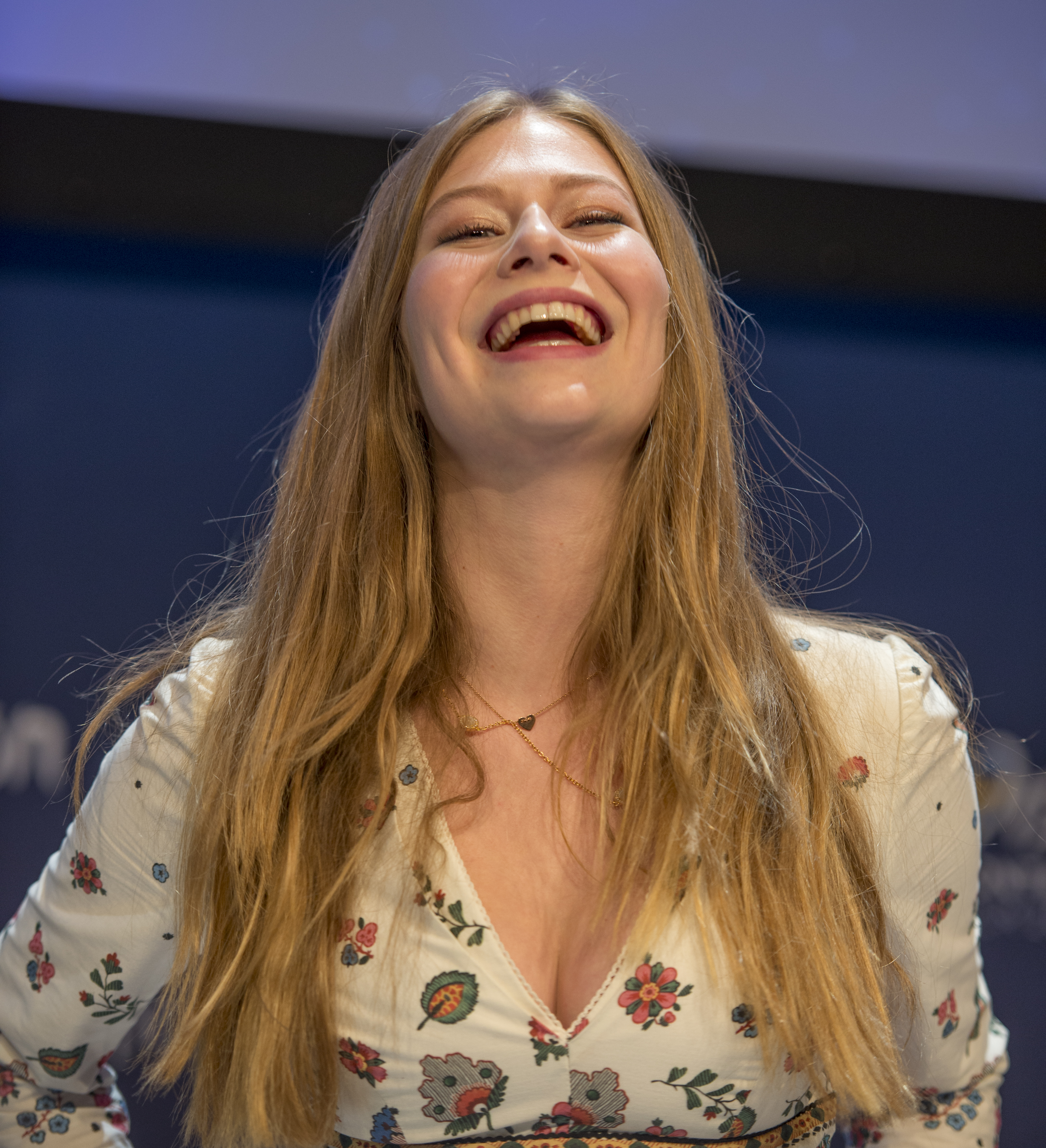 Zoë at a Meet & Greet during the Eurovision Song Contest 2016 in Stockholm. (Help translate this text)